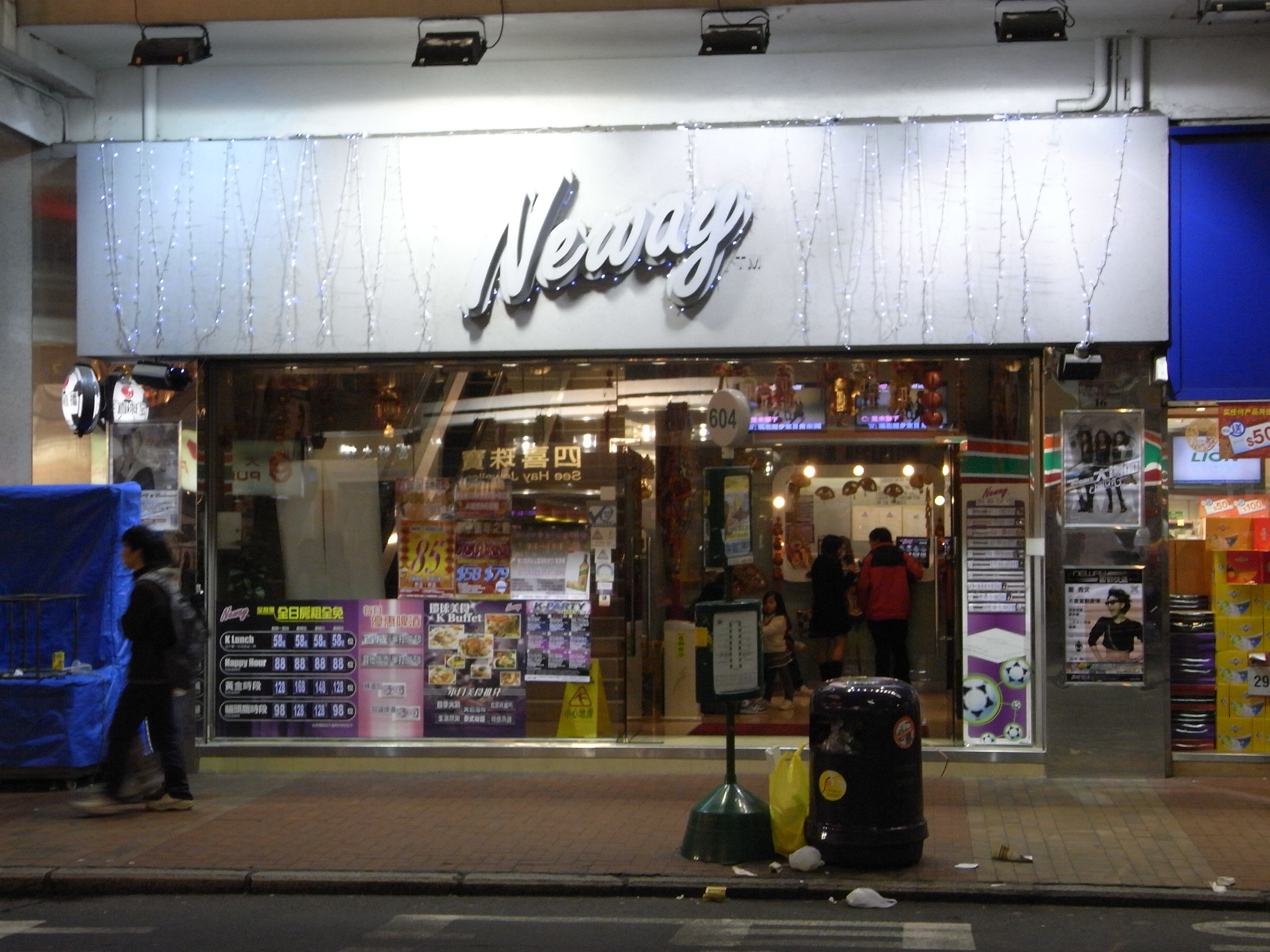 元朗 教育路